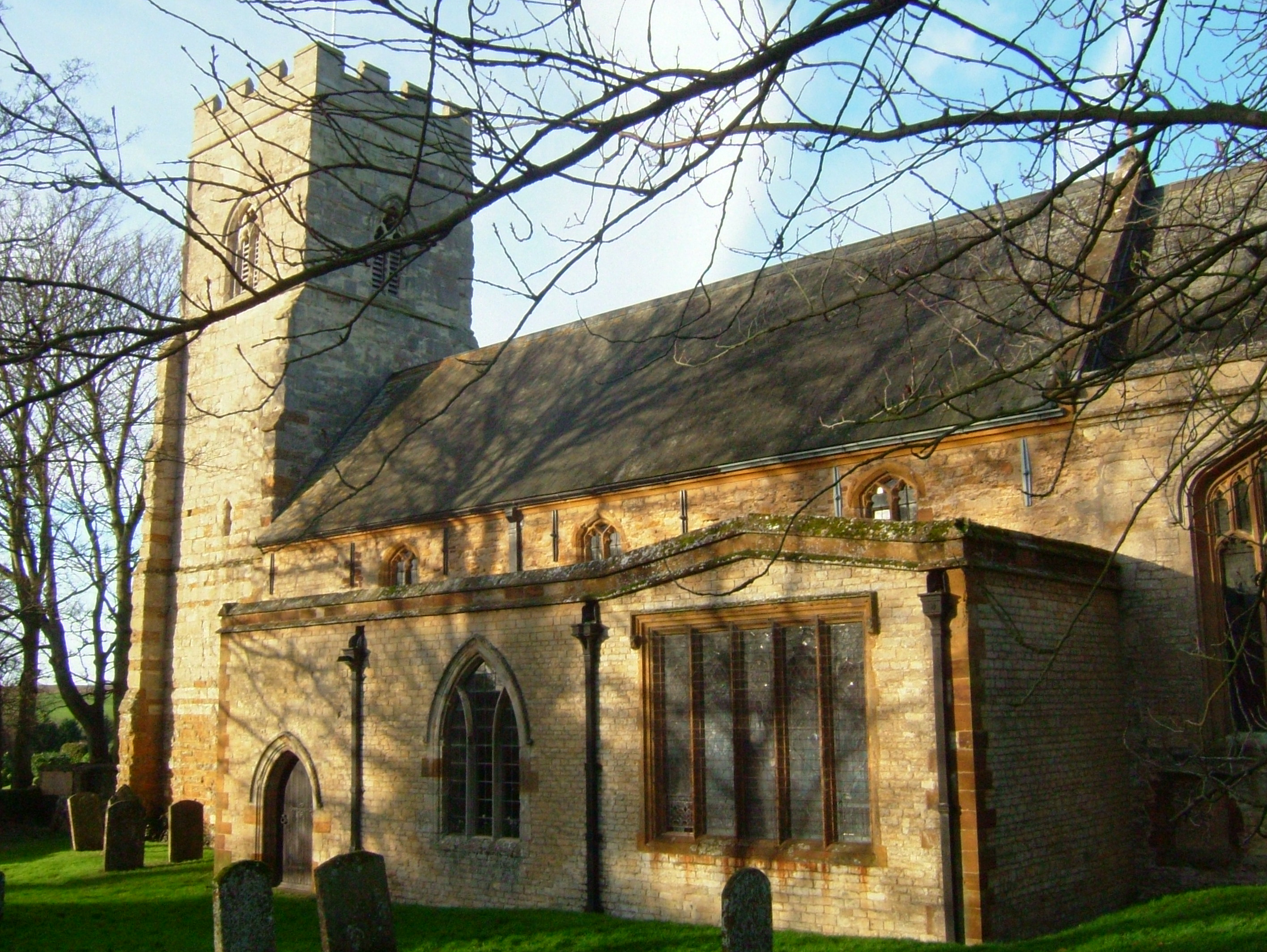 West tower, south aisle and clerestory of the parish church of St John the Baptist, Blisworth, Northamptonshire, England, seen from the southeast. The south aisle was added in 1926.